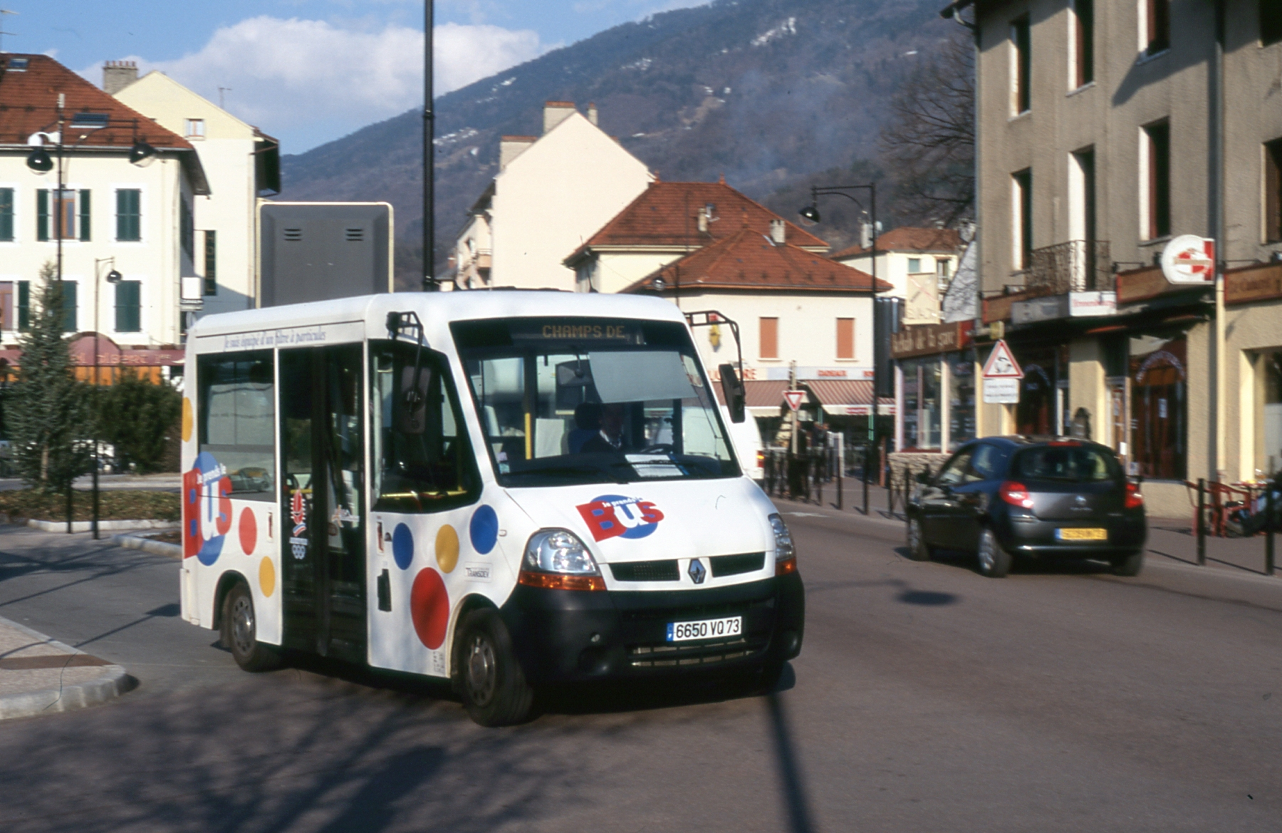 A Vehixel Cytios 20 (French agglomeration community Co.RAL) running on Je prend le bus’s line B, near to the call Gare SNCF (Albertville, France).